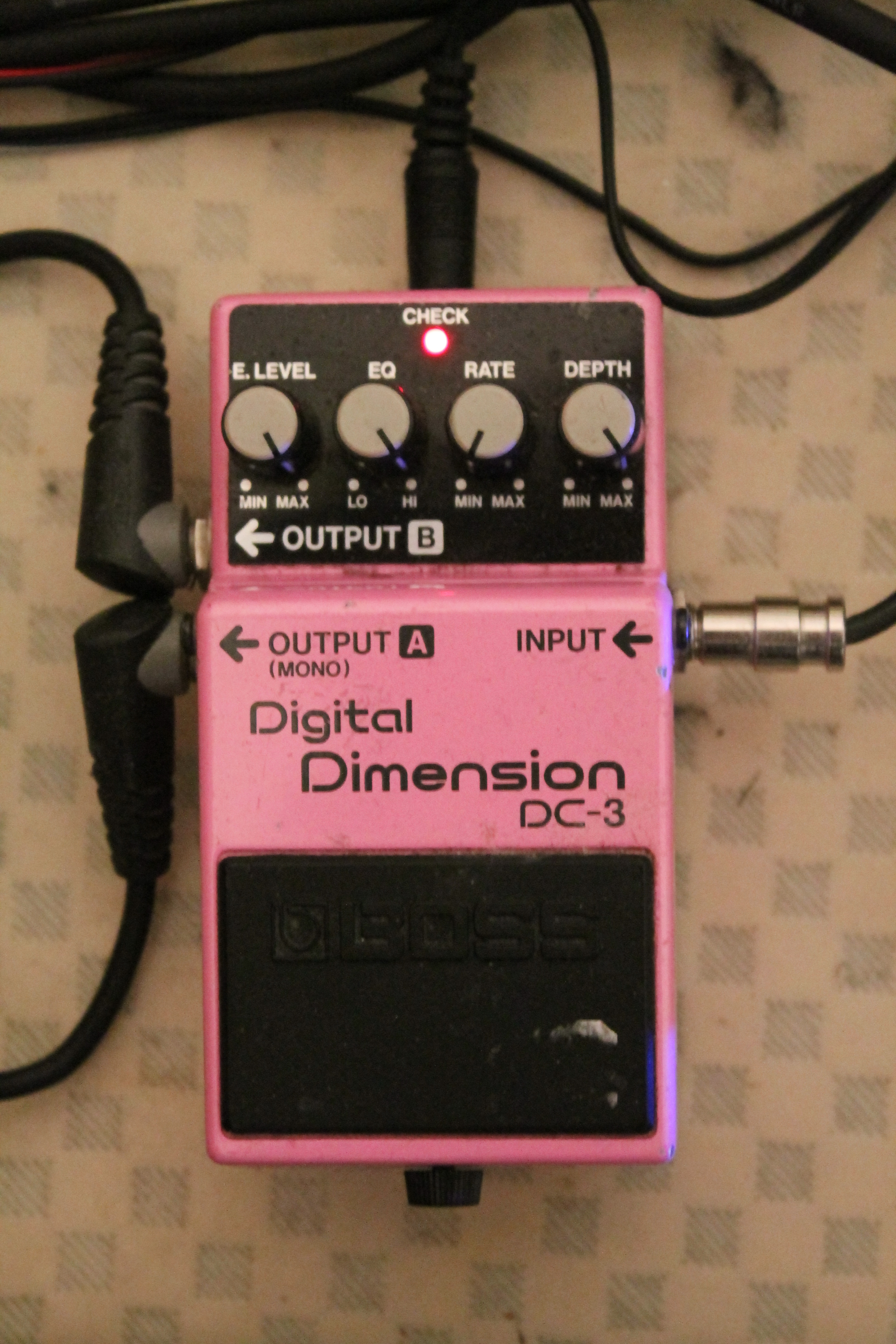 BOSS DC-3 -chorus FX-pedal